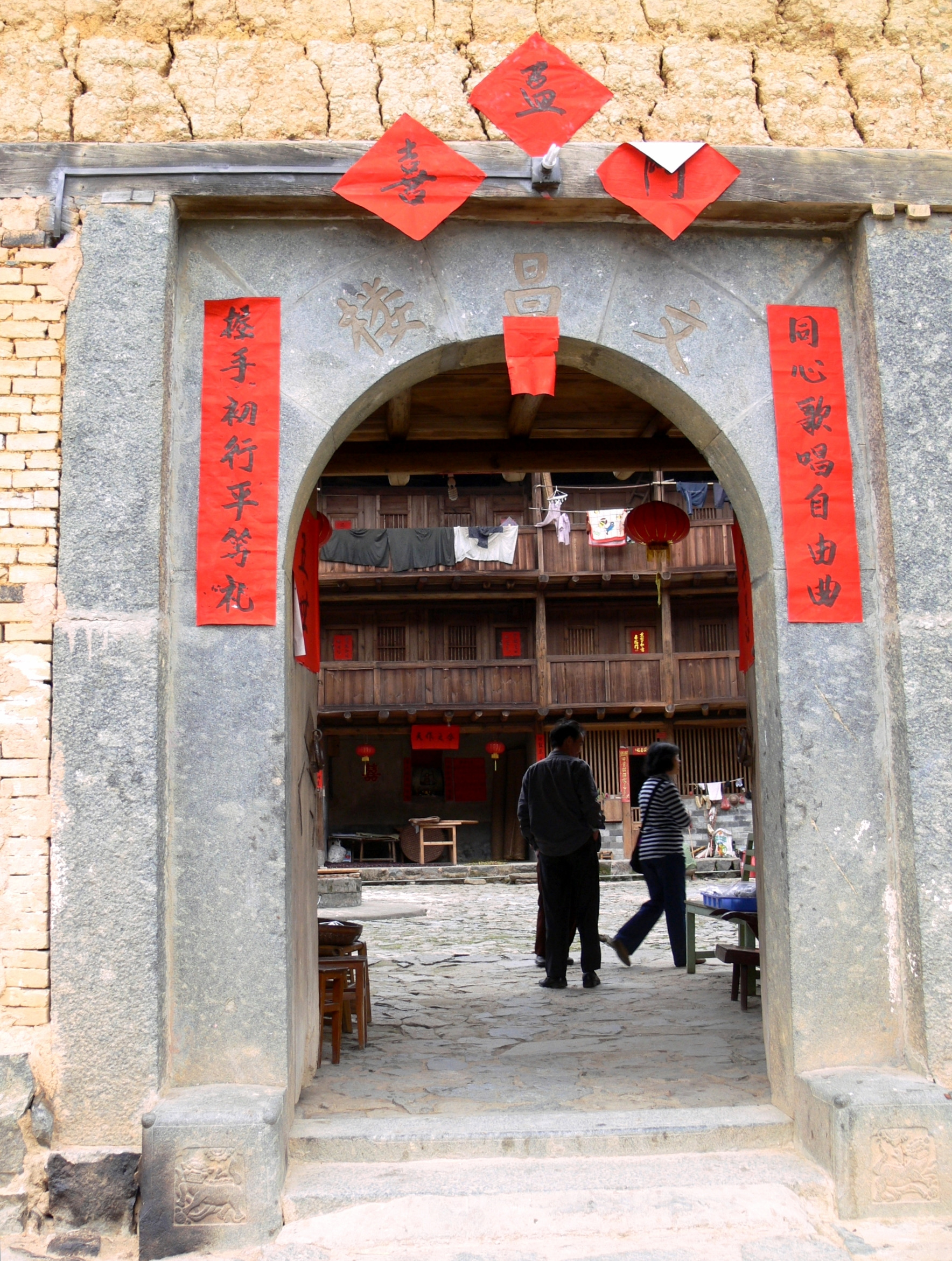 Main entrance to Wenchanglou earth building in Tianluokeng田螺坑土楼文昌楼大门